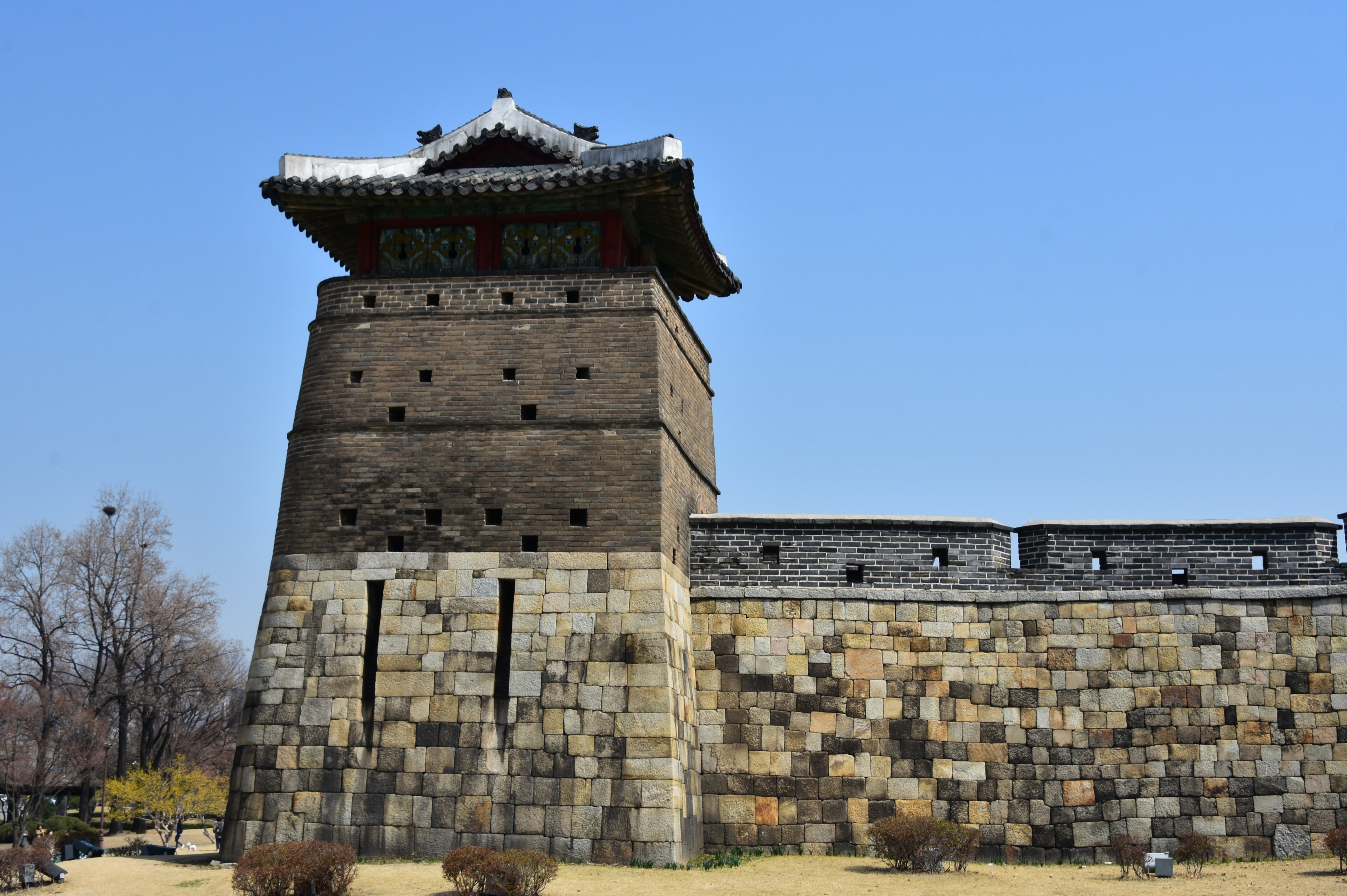 Fortifications of Suwon, late 18th century (38)